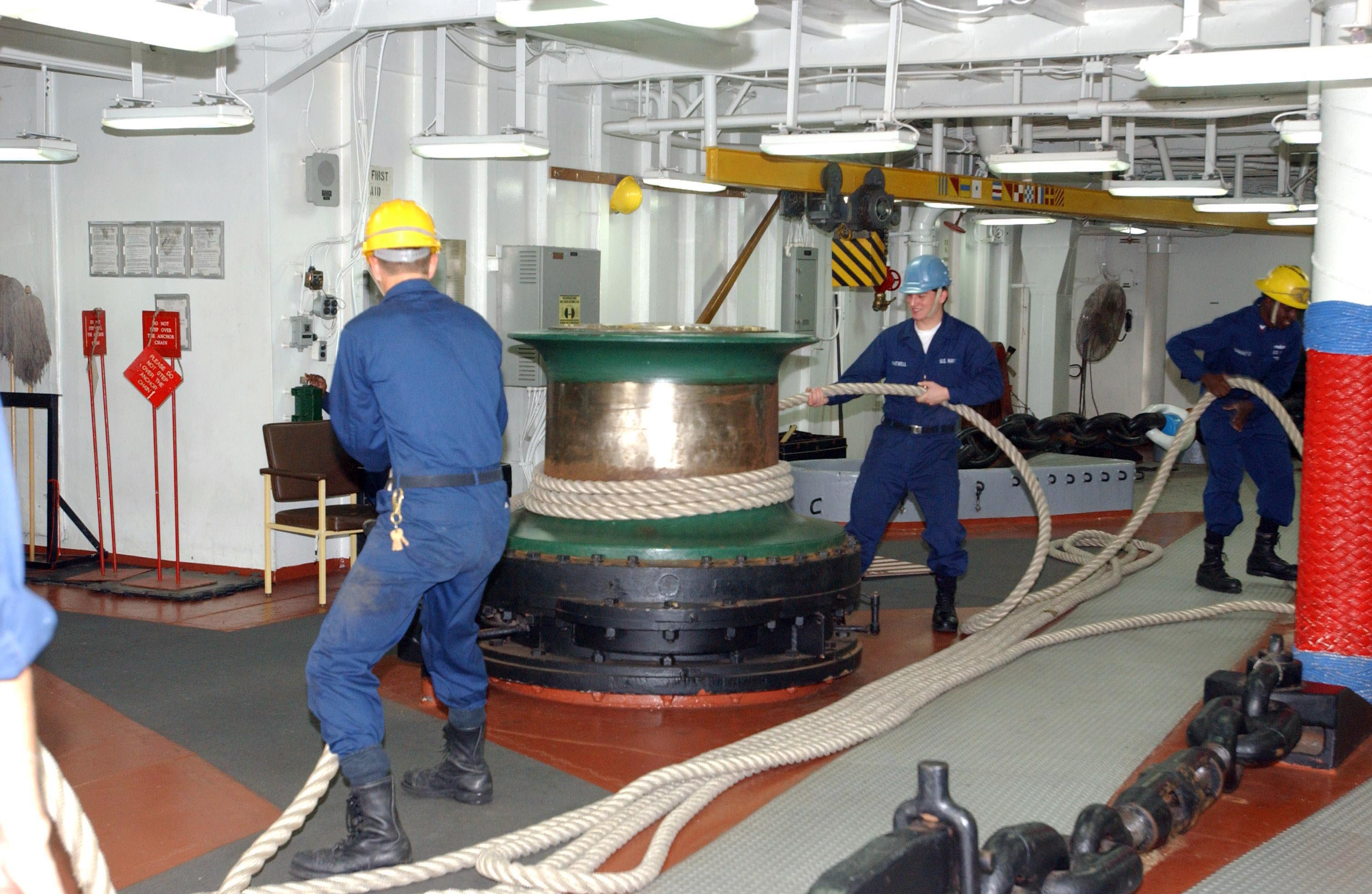 Pacific Ocean (Aug. 30, 2004) - Sailors aboard the amphibious assault ship USS Boxer (LHD 4), heave mooring lines inside the ship's forecastle as Boxer makes her way to offload weapons prior to the ship's Planned Maintenance Availability (PIA) maintenance period. U.S. Navy photo by Photographer's Mate 3rd Class Denise Vallee (RELEASED)